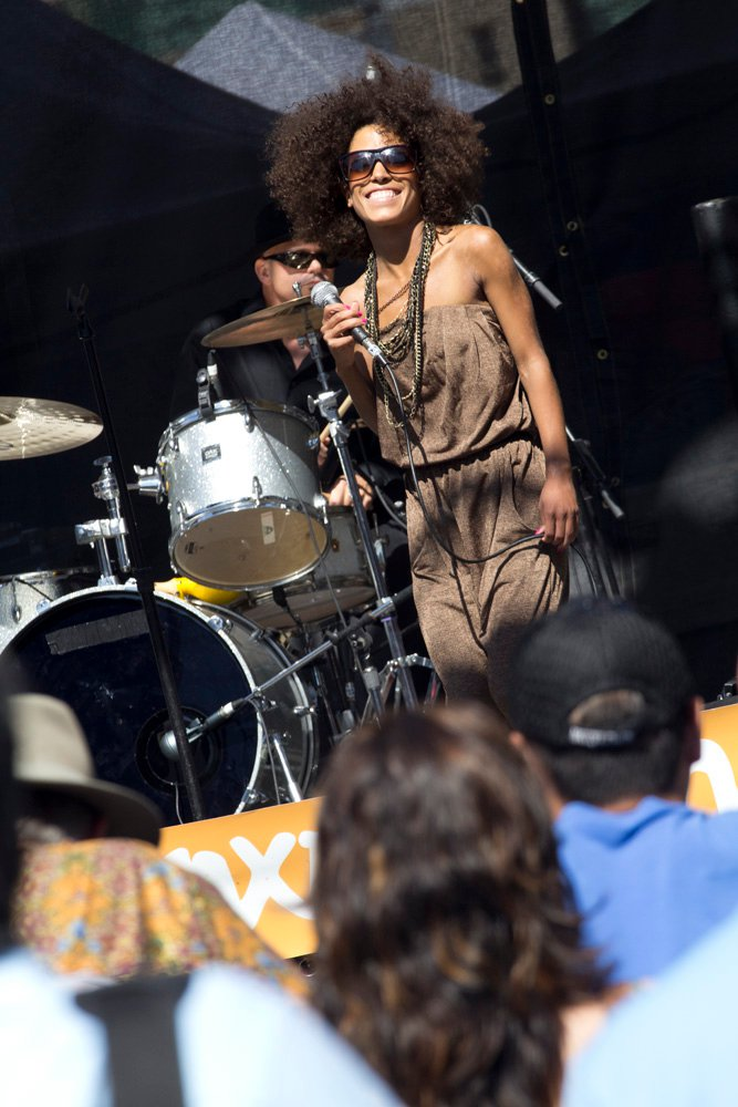 Barbara Mamabolo Performs at Yonge and Dundas Square 2011